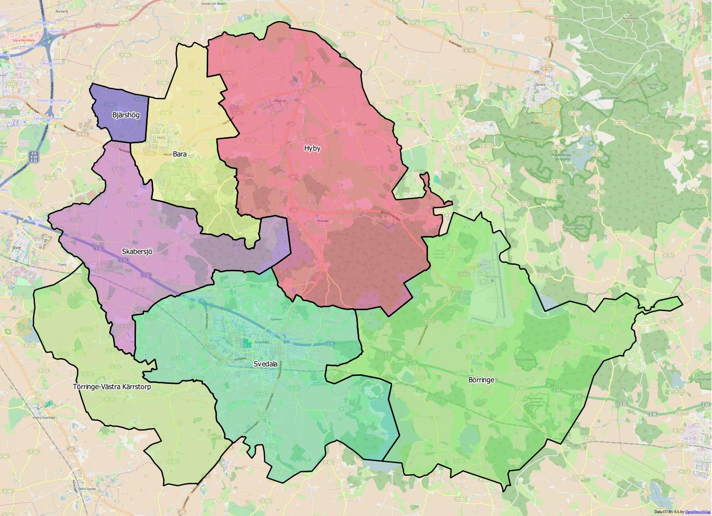 Distriktsindelningen i Svedala kommun World file: 32.50369640729250875 0 0 -32.50369640729250875 1456860.79163419827818871 7484519.19557921774685383